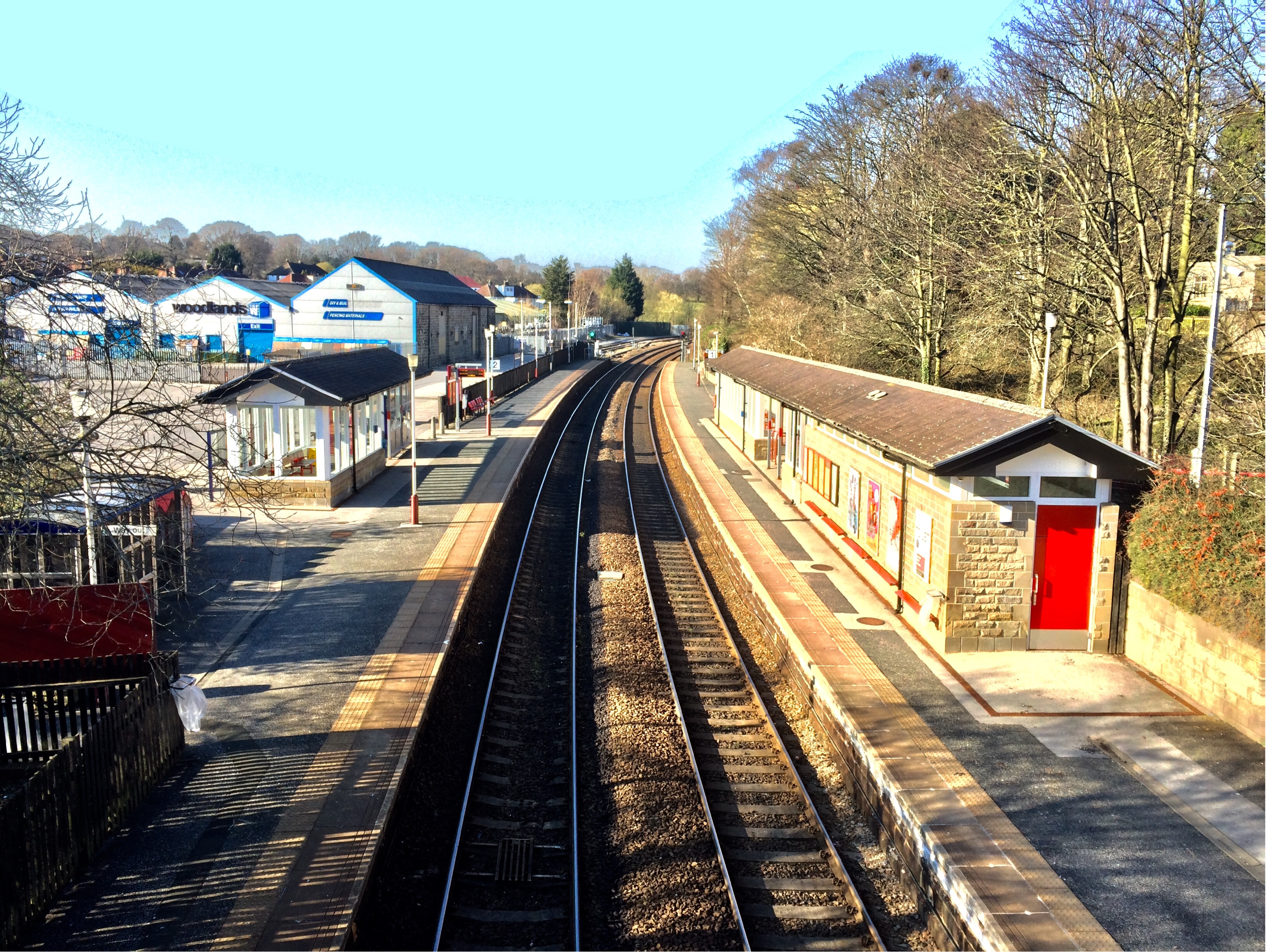 Horsforth railway station